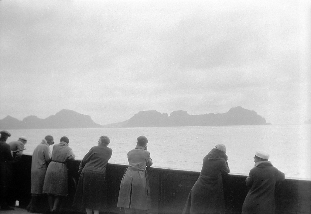 Vestmannaeyjar (Westman Islands), at the south coast of Iceland. Vestmannaeyjar (Vestmannaöarna) vid Islands sydkust. Location: Vestmannaeyjar, Suðurland, Iceland, Island Photograph by: Berit Wallenberg Date: 02.07.1930 Format: Film Persistent URL: Read more about the photo database (in english)